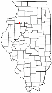 Category:Illinois city locator maps